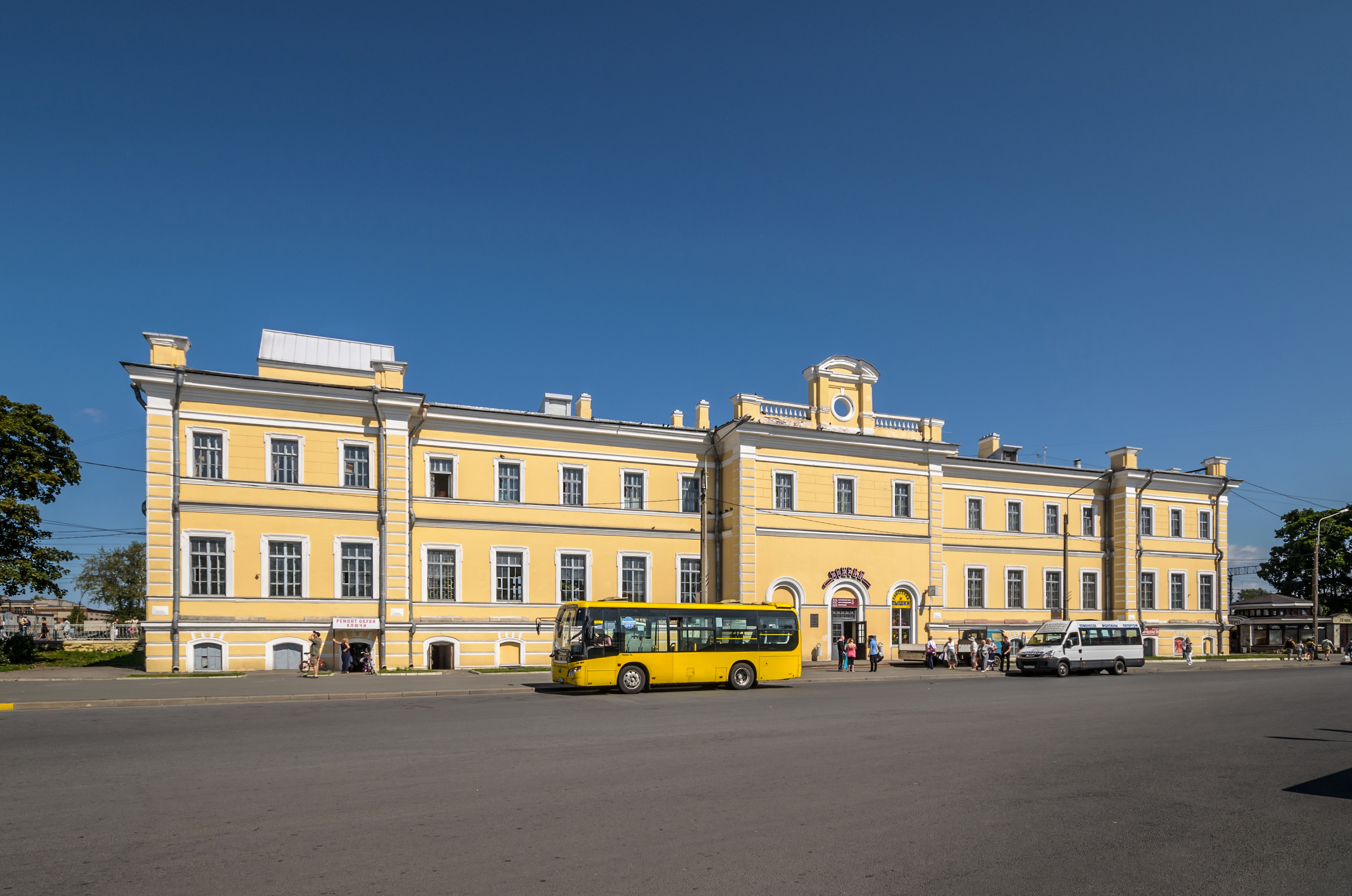 Oranienbaum I Railway Station in Saint Petersburg